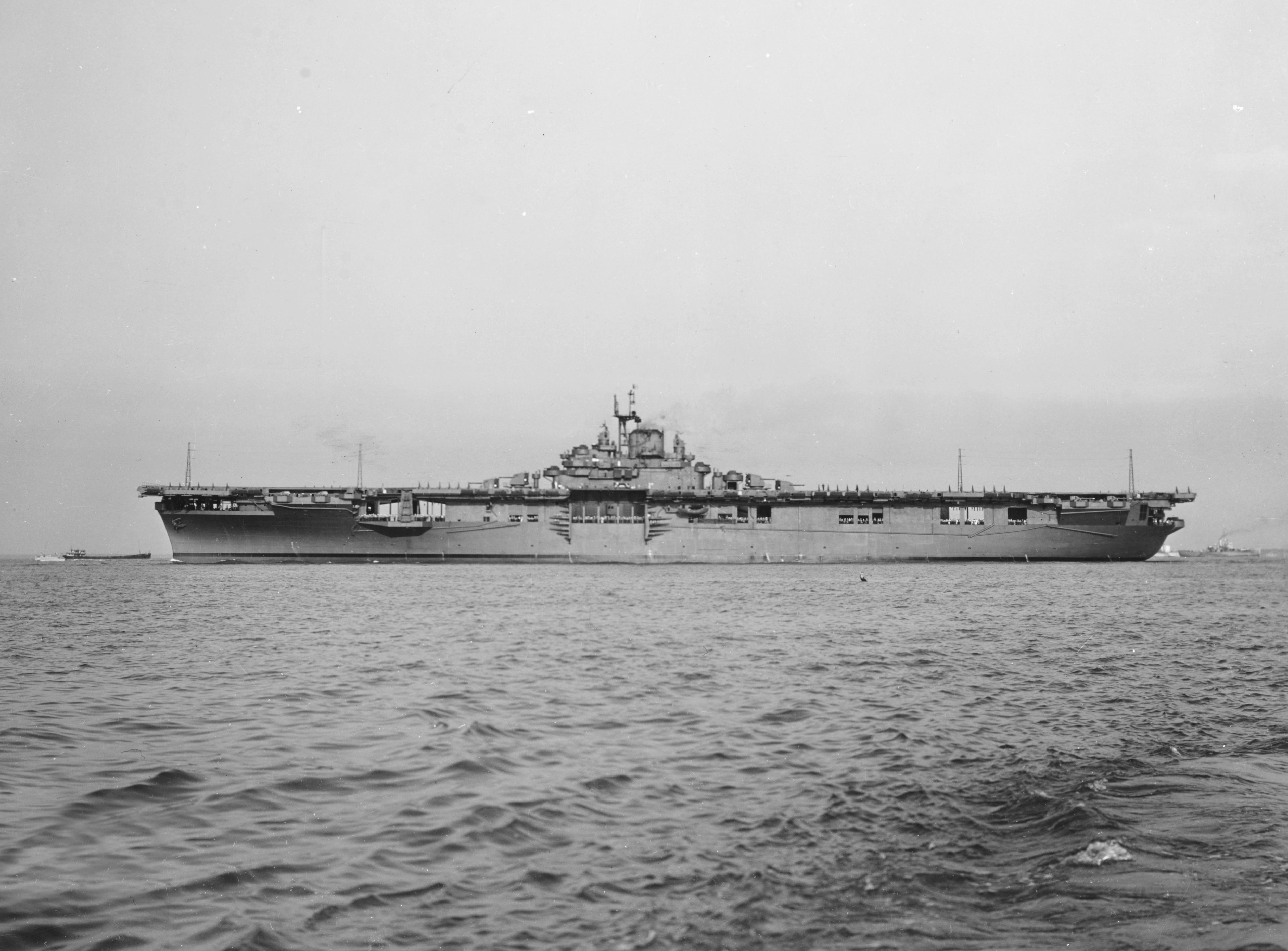 The U.S. Navy aircraft carrier USS Intrepid (CV-11) underway off Newport News, Virginia (USA), on 16 August 1943, the day she went into commission. Note the hangar catapult forward.